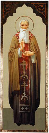 Saint Joannicius (Ioannicius) the Great, Eastern Orthodox icon from Russia. Venerable Joannicius the Great (752, village Marikat, Bithynia - † November 4, 846 in Antidium) was a respected Byzantine Christian saint, sage, theologian, prophet and wonderworker, the hermit of Mount Olympus (today known as Uludağ, near ancient Prussa, i.e. modern Bursa, Turkey), monk and abbot. One of the greatest monks of Christian East.